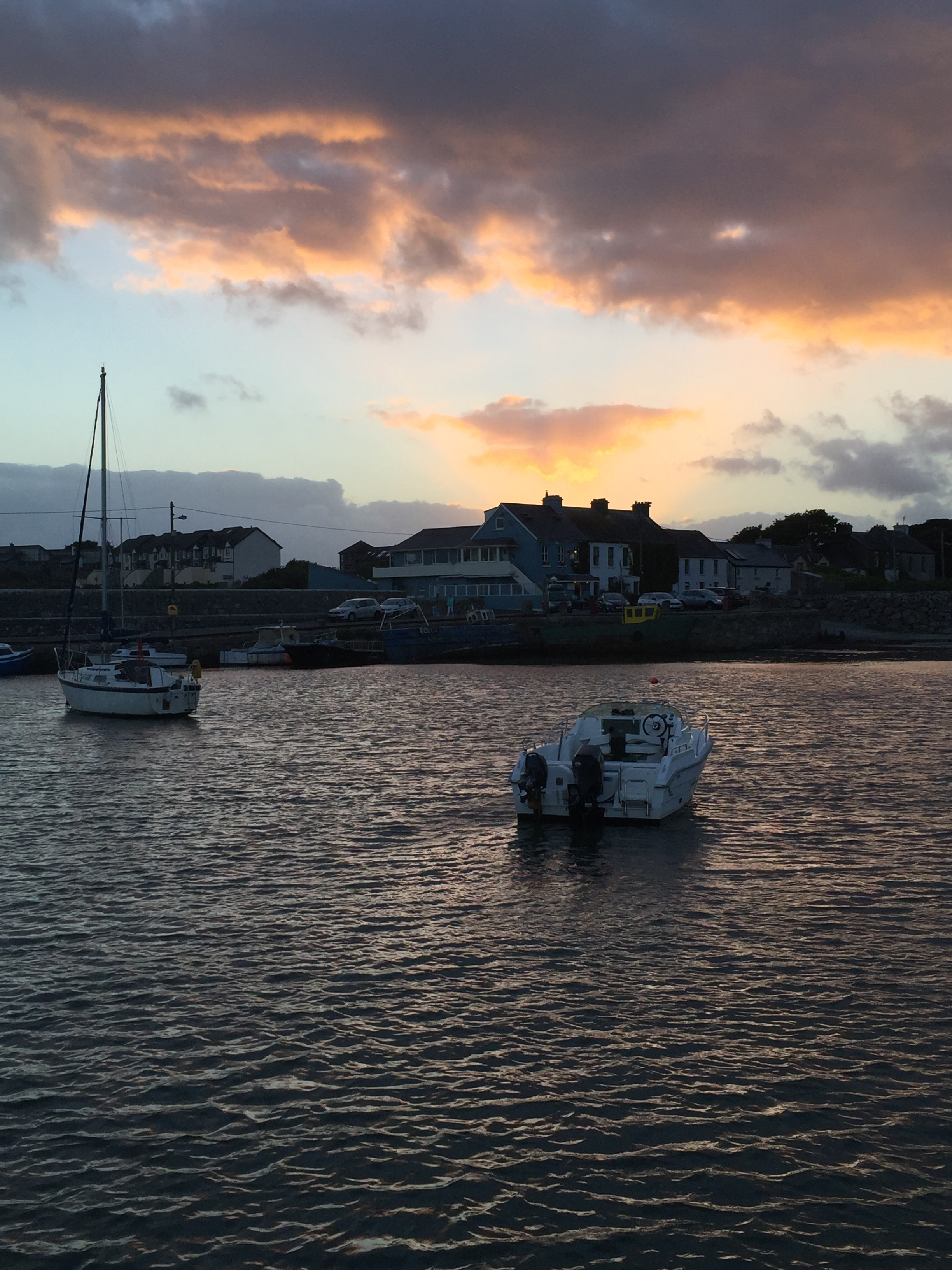 Sunset over Bearna (Barna) harbour, Co Galway